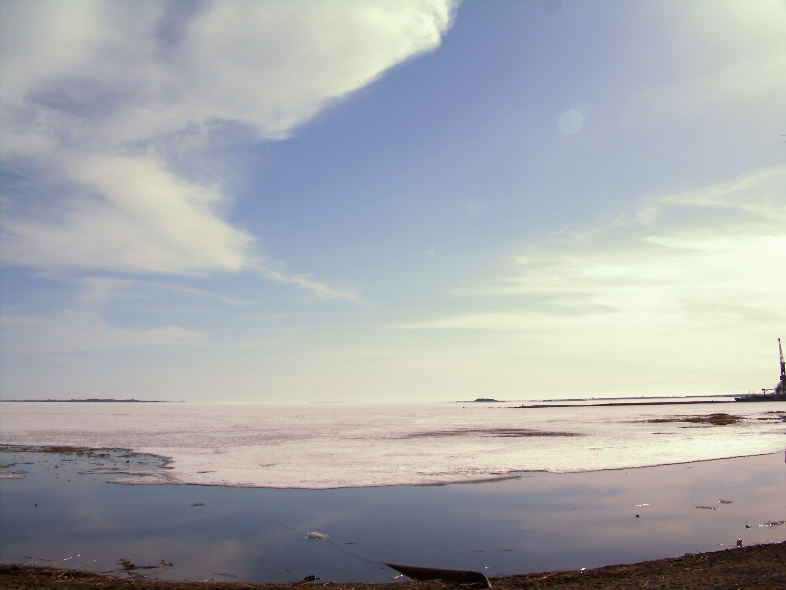 Lake Balkhash in spring, 22 March 2008